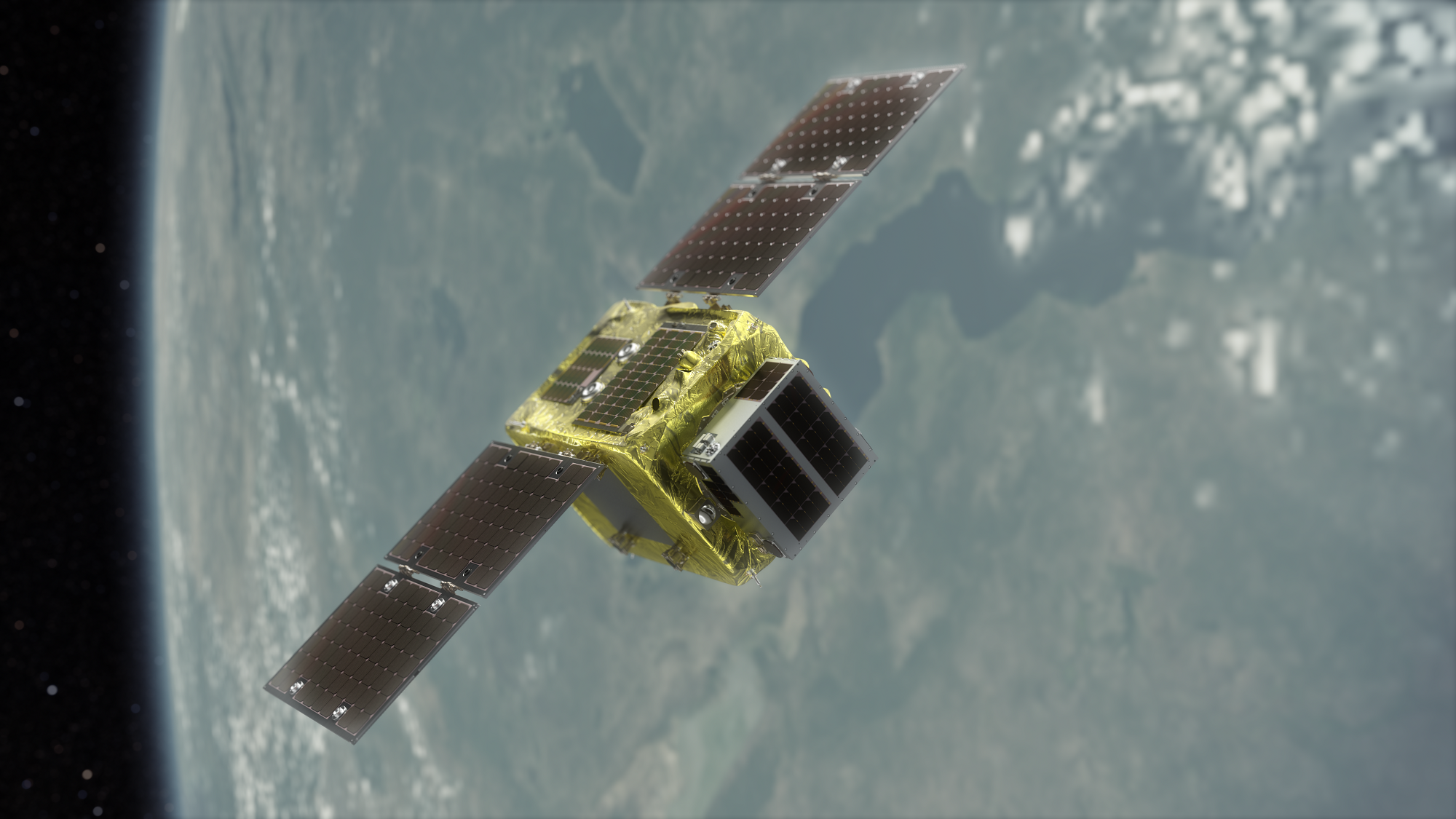 ELSA-d, scheduled to launch in 2020, consists of two spacecraft, a Servicer and a Client, launched stacked together.